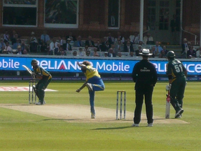 Lasith Malinga bowling for Sri Lanka to Shahid Afridi in the ICC World Twenty20 Final against Pakistan at Lord's.